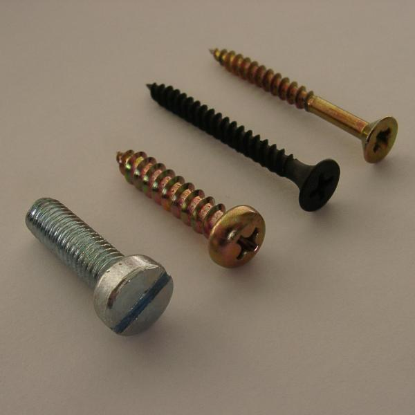 Closeup of screws from left: conventional screws, tapping screws, drywall screws, wood screws.